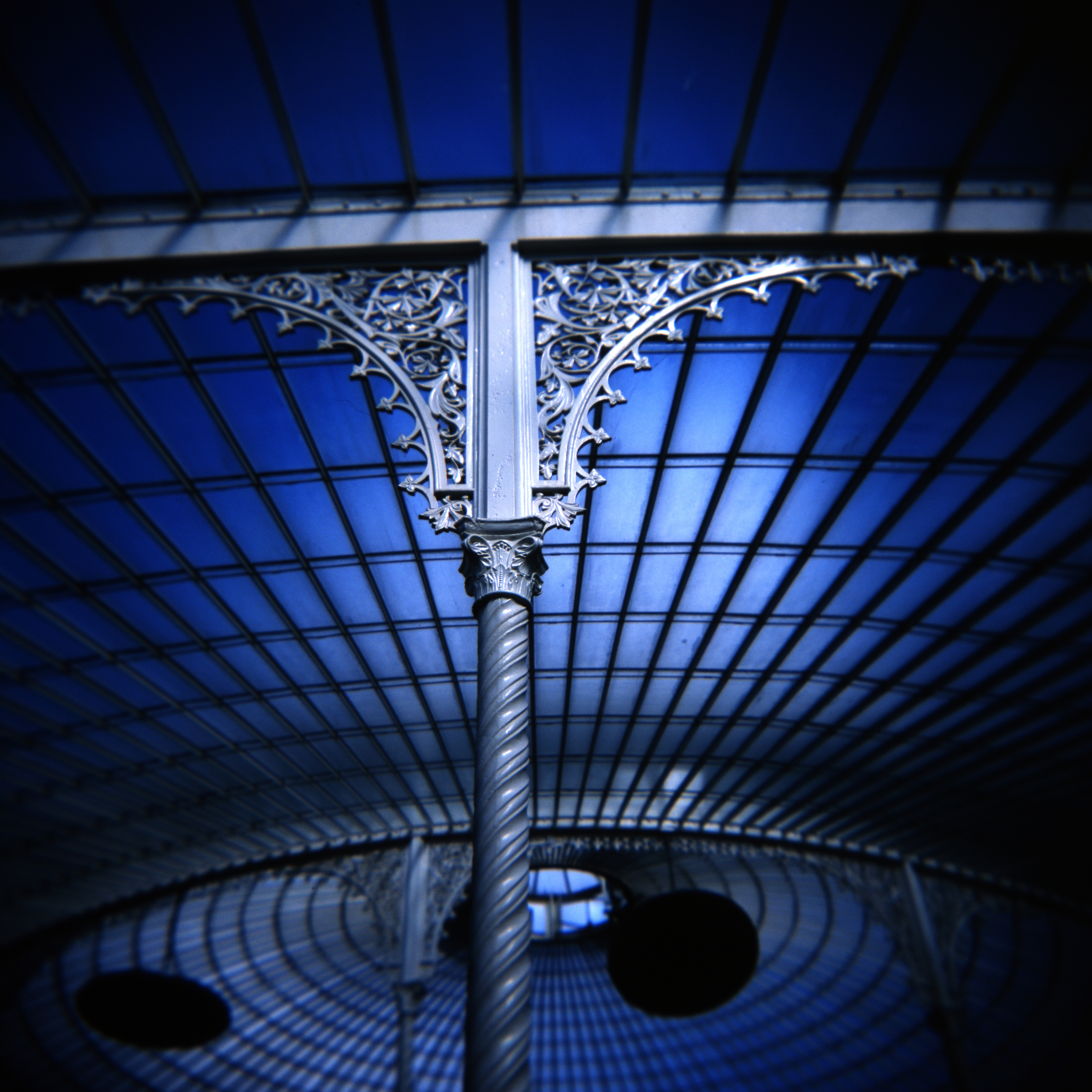 A beautiful example of the craftsmanship that went into the construction of the Kibble Palace[1]. Kibble Palace is a 19th century iron framed glasshouse, covering 2137 m2. It was constructed at its current location in 1873, but was originally designed and built by John Kibble for his home at Coulport on Loch Long in the 1860s. It was brought up the River Clyde by barge, to the Botanic Gardens where it was re-assembled and enlarged. It was initially used as an exhibition and concert venue, before being used for growing plants from the 1880s. Benjamin Disraeli and William Ewart Gladstone were both installed as rectors of the University of Glasgow in the palace, in 1873 and 1879 respectively. The building structure is of curved wrought iron and glass supported by cast iron beams resting on ornate columns, surmounted on masonry foundations. The Palace is used for the cultivation of temperate plants. The main plant group is the collection of Australian tree ferns, some of which have lived here for 120 years. In 2004 a £7 million restoration programme was initiated to repair corrosion of the ironwork. The restoration involved the complete dismantling of the Palace, and the removal of the parts to Shafton, South Yorkshire for specialised repair and conservation. The plant collection was removed completely for the first time ever and the ironwork was rebuilt over a rearranged floorplan, giving the Palace a prolonged life. It re-opened to the public in November 2006. Wikipedia entry [2]